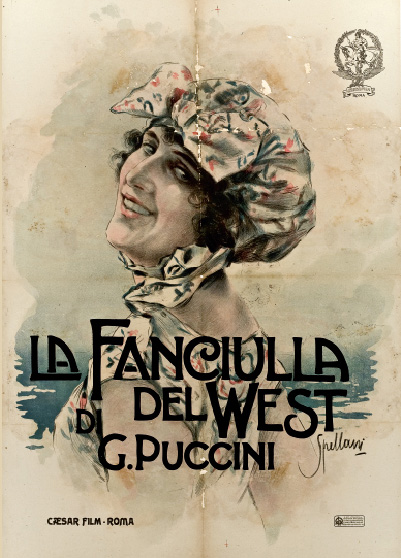 Poster for the 1915 silent film of Puccini's opera La fanciulla del West David Belasco's play The Girl of the Golden West directed by Cecil B. De Mille; Artist: Giovanni Spellani (1831–1927); Printer: Lithografia Montorfano a Valcarenghi, Rome